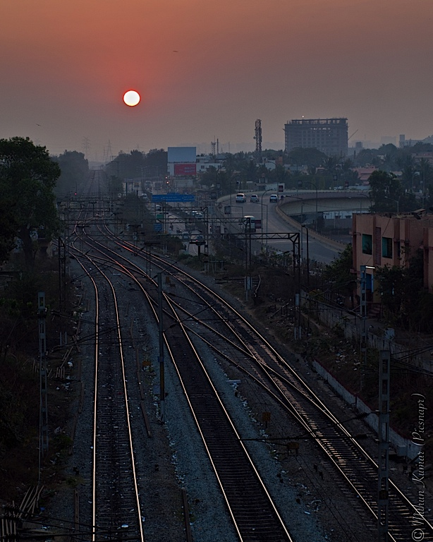 View of the Krishnarajapuram Railway station tracks from above the cable bridge.